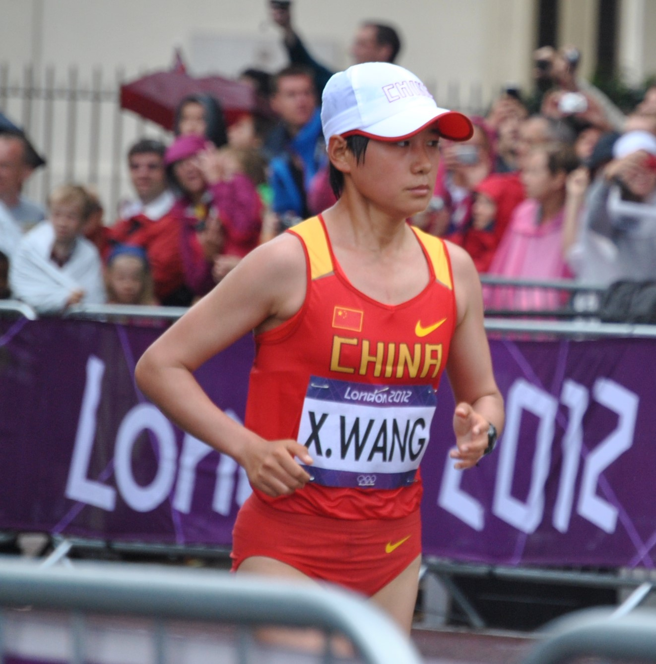 Wang Xueqin competing in the marathon at the 2012 Summer Olympics